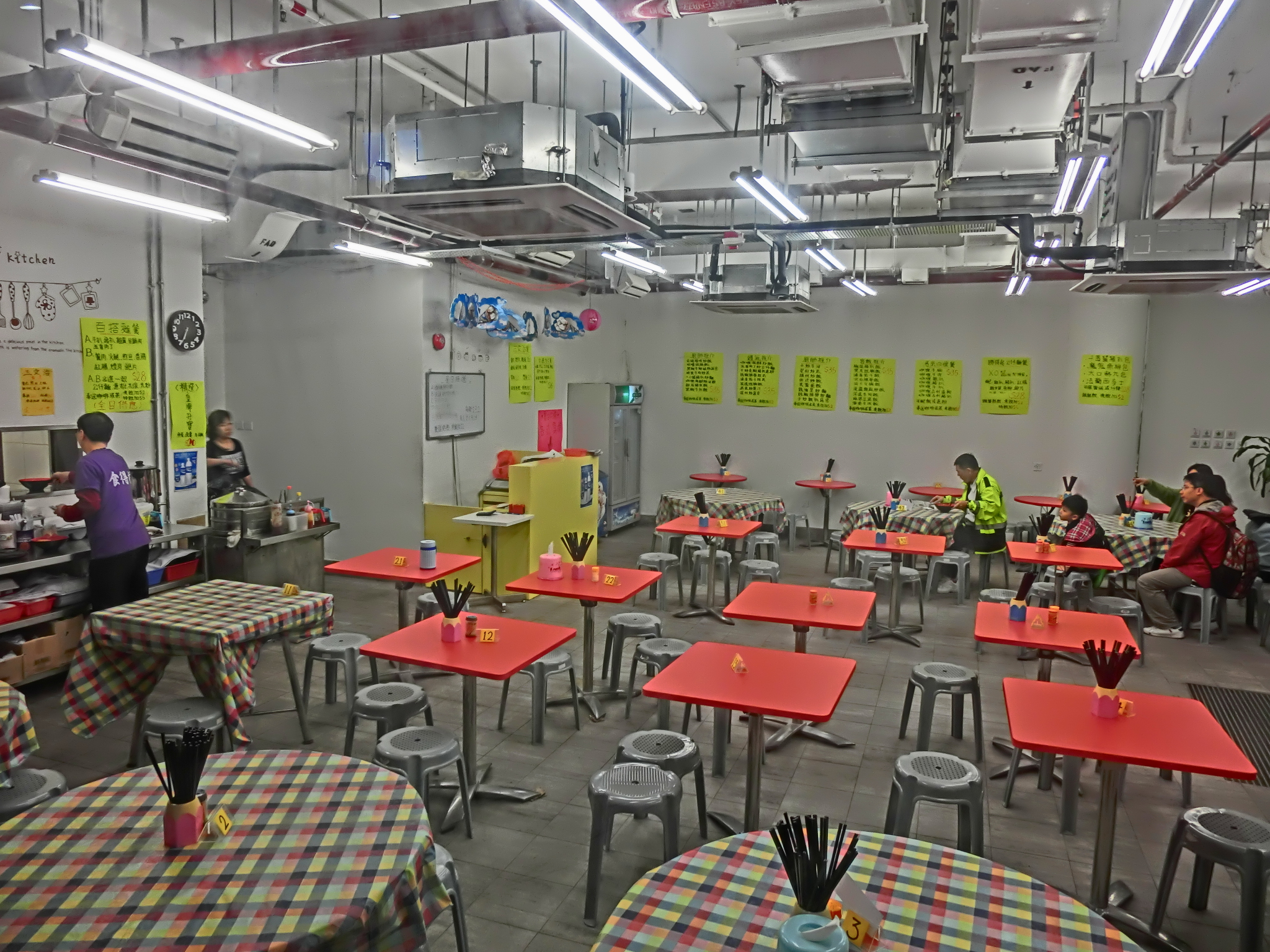 觀塘 (2013年版)觀塘游泳池, Kwun Tong Swimming Pool, Kwun Tong, Hong Kong [Category:December 2013 in Kwun Tong